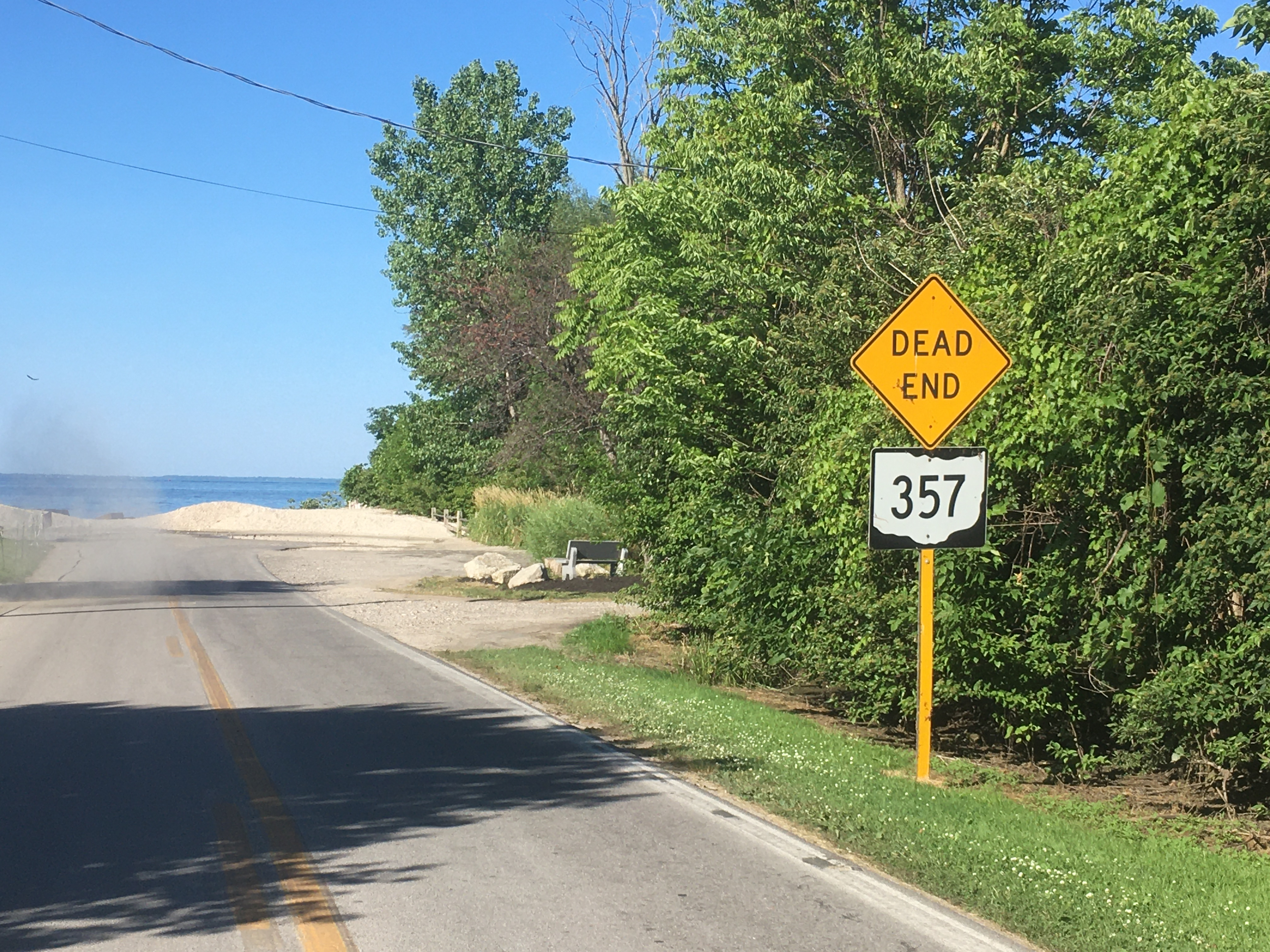 Ohio State Route 357 East Terminal